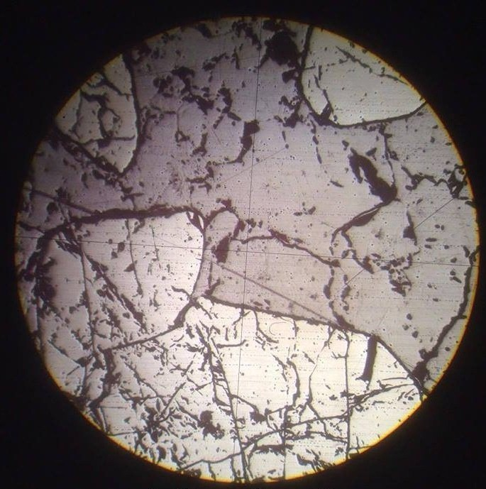 Microscopic image of Zincite and Franklinite under normal light